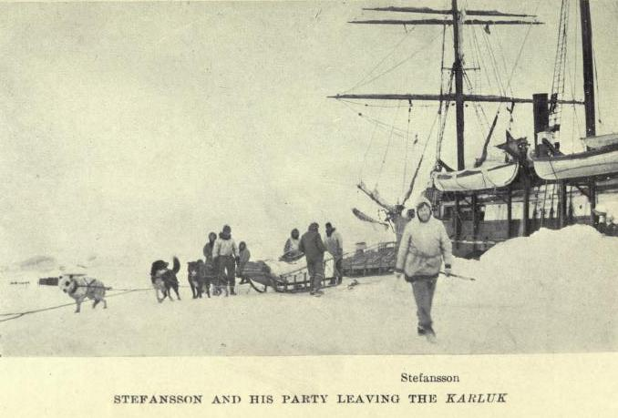 Vilhjalmur Stefansson and party leaving the Srtcic exploration vesel Karluk, 20 September 1913